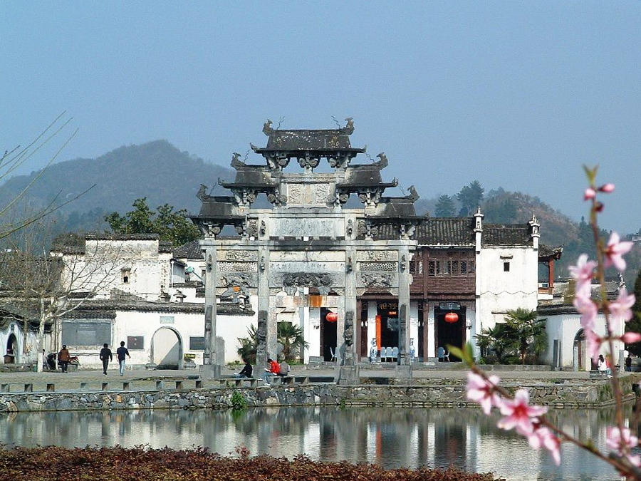 Xidi,Huizhou,Anhui